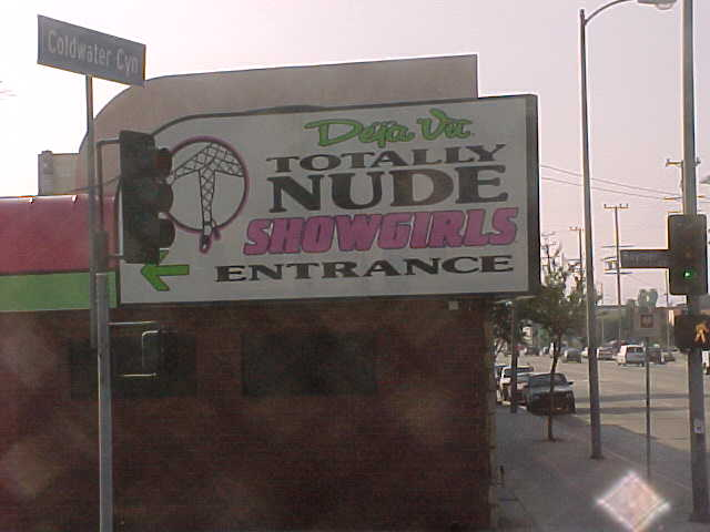 The Déjà Vu strip club on 7350 Coldwater Canyon Avenue in North Hollywood, California, October 27, 1998